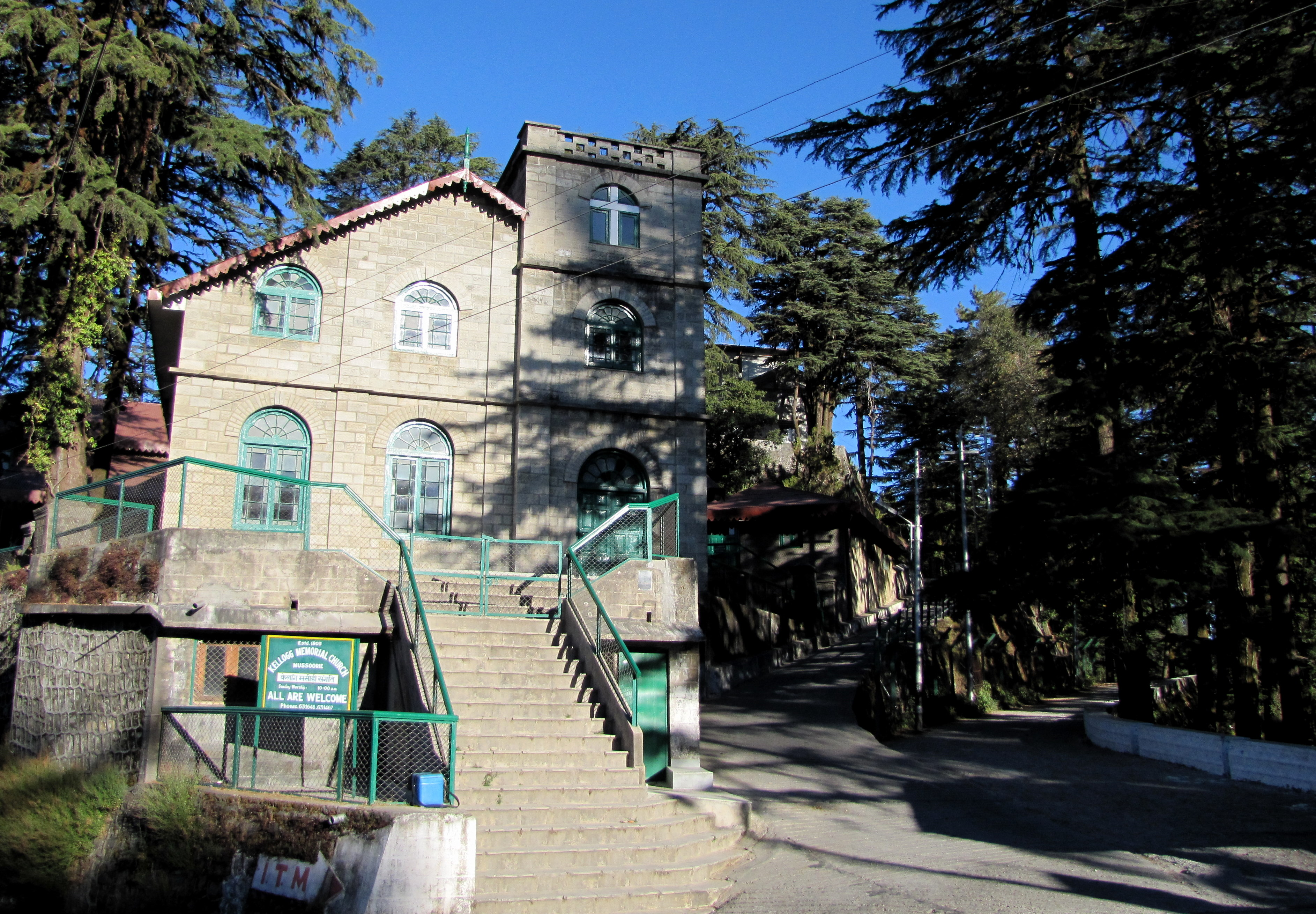 Kellog Church